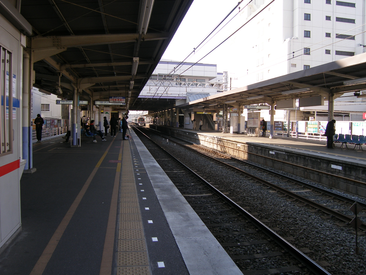 Yachiyodai Station platforms. View from the platform 2 towards Ueno